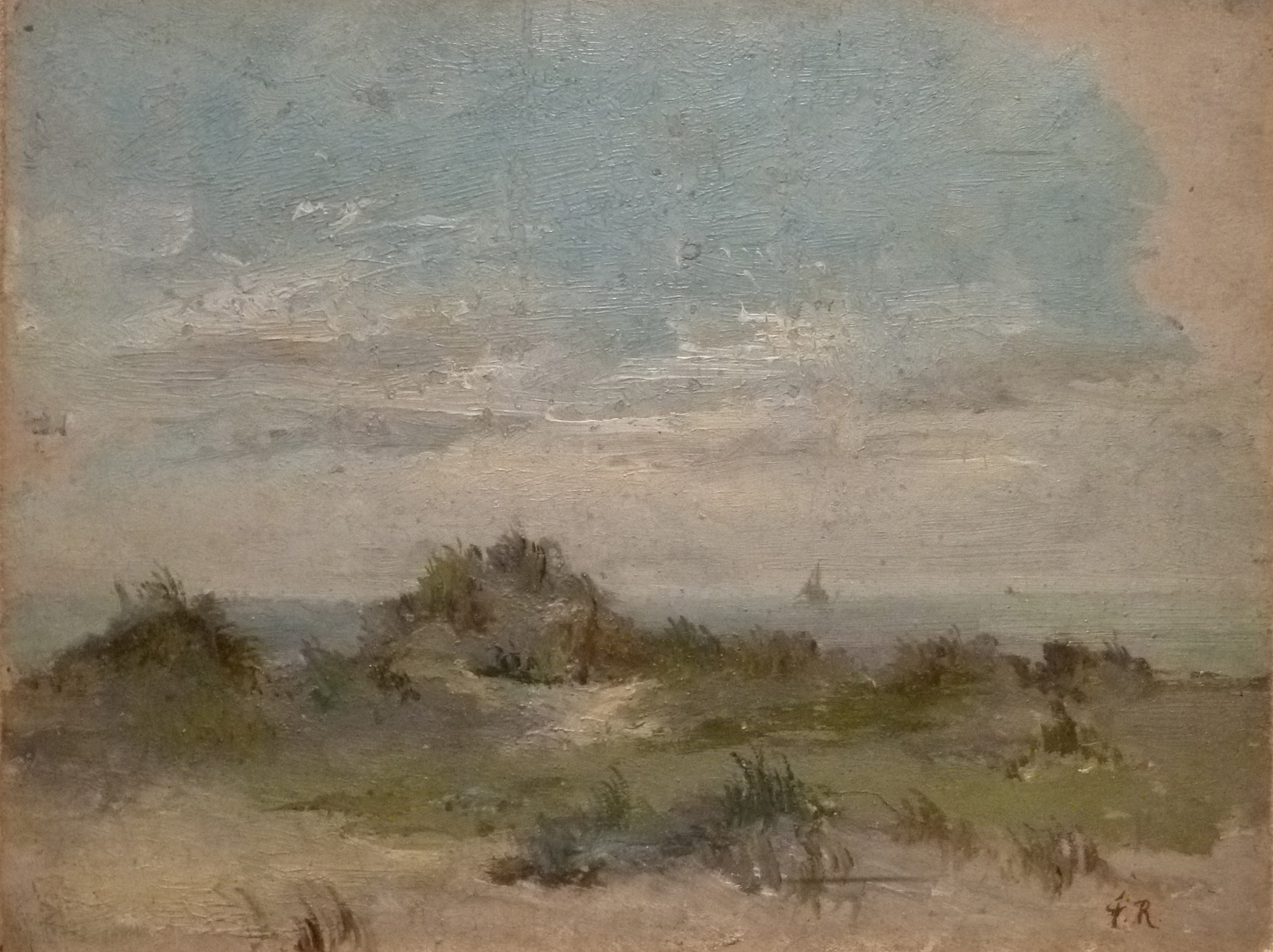 "View of the Dunes" (oil on cardboard; 18 x 23.3 cm) by the Belgian painter Félicien Rops (1833-1898); collection Musée des Beaux Arts, Liège, Belgium